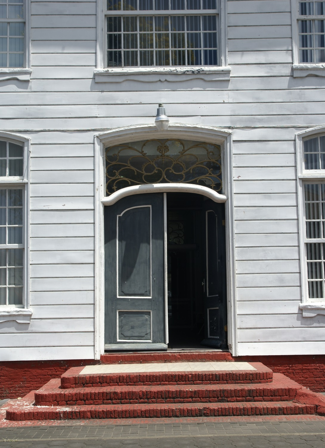 Onafhankelijkheidsplein 2, Paramaribo, Surinam. Entree at the back, Mr Dr J.C. de Mirandastraat.